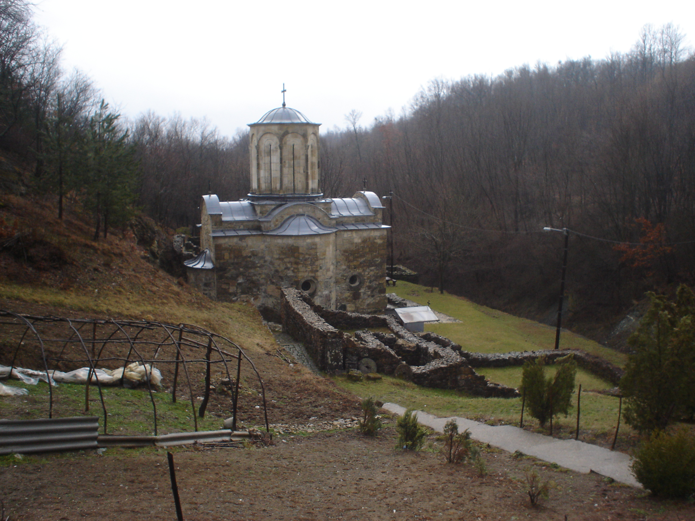 Monastery Pavlovac in Koraćica on Kosmaj, near Mladenovac, Serbia.